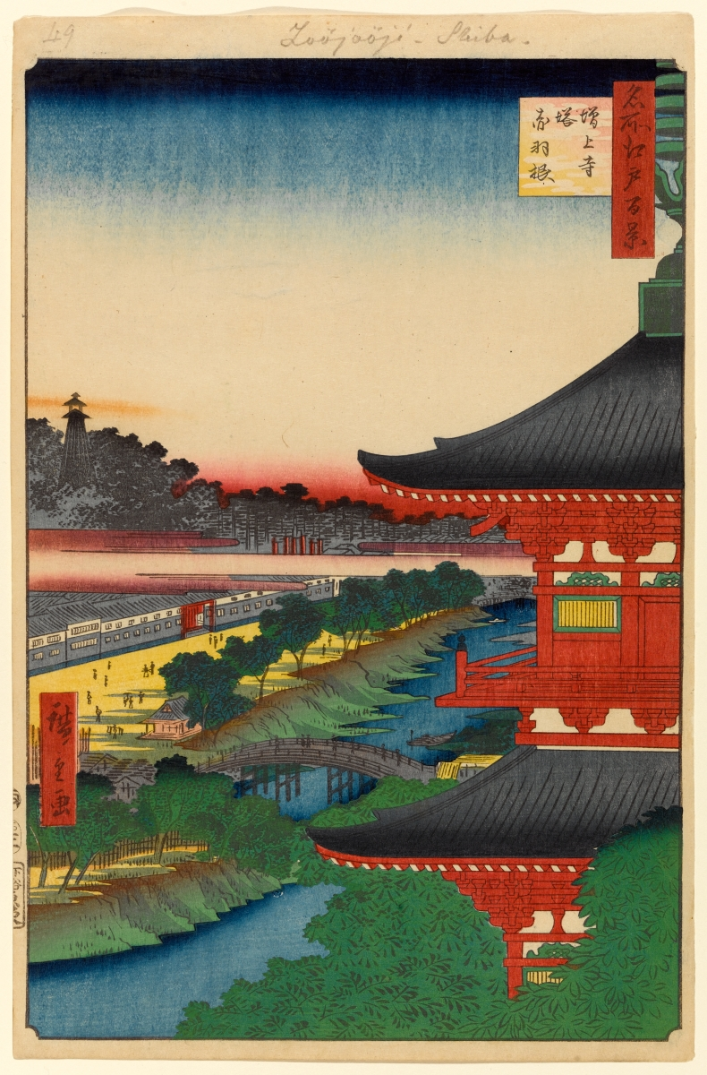 Part of the series One Hundred Famous Views of Edo, no. 053, part 2: Summer.